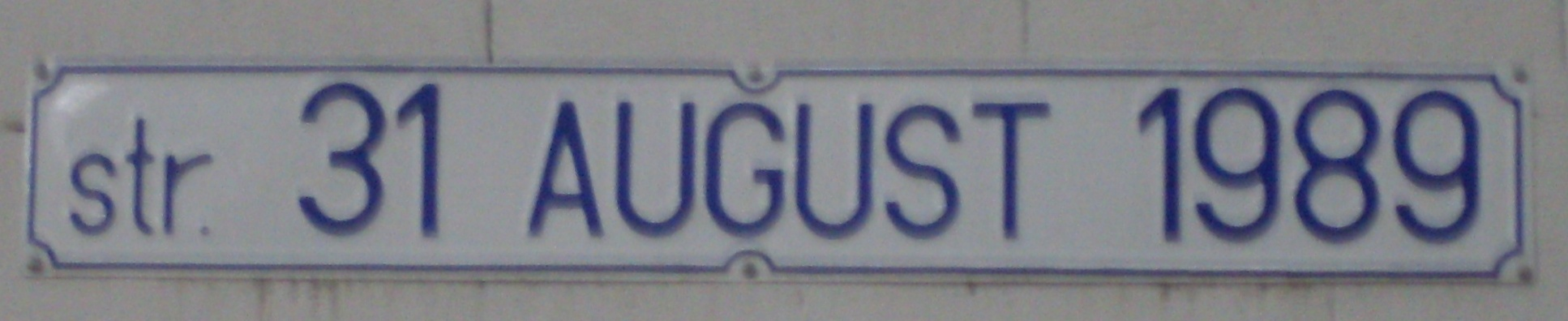 A slate indicating the 31 August 1989 street of Chisinau